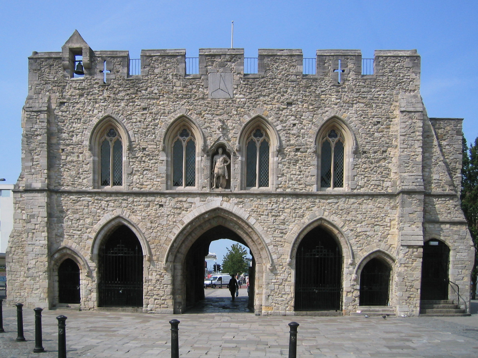 The Bargate, in Southampton, UK. In the middle of the four windows is a statue of George III in Roman dress.